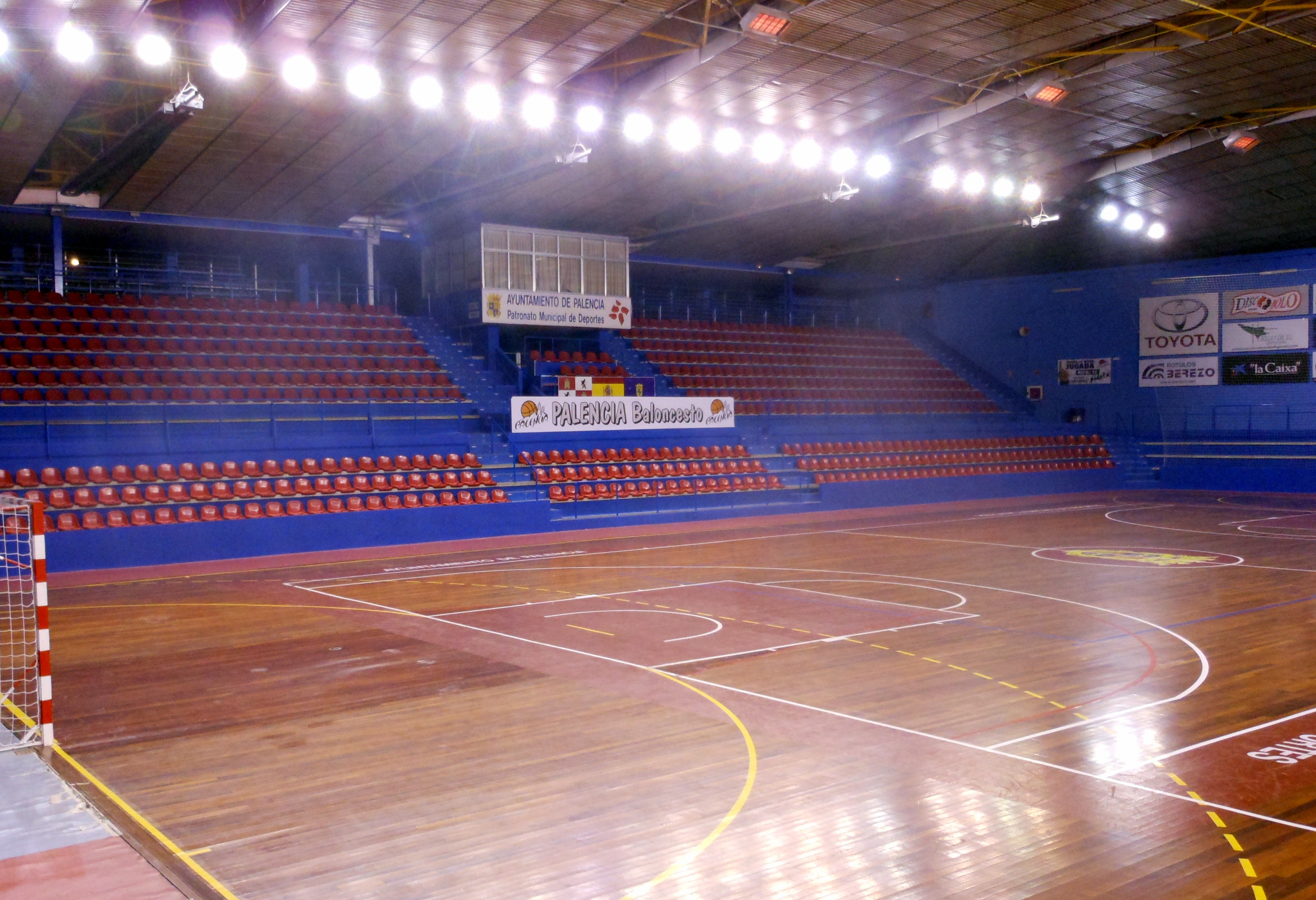 Pabellón Municipal de Deportes Marta Domínguez, Palencia, Spain.